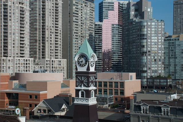 The clock tower at 484 Yonge Street, formerly the tower of Fire Station #3, now perched above a row of shops, with residential condominium buildings in the background.